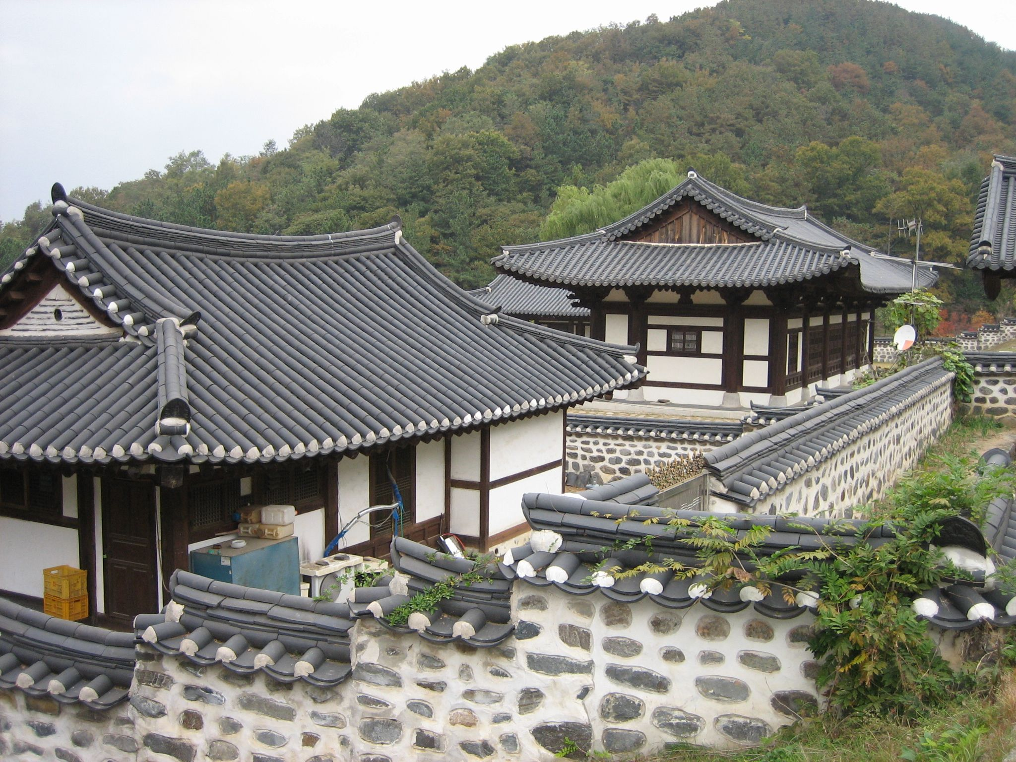 Uam Historic Park, Daejeon